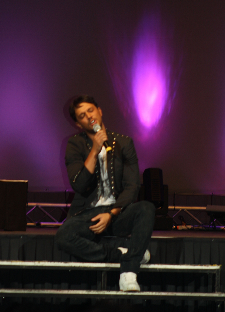 Murat Boz.